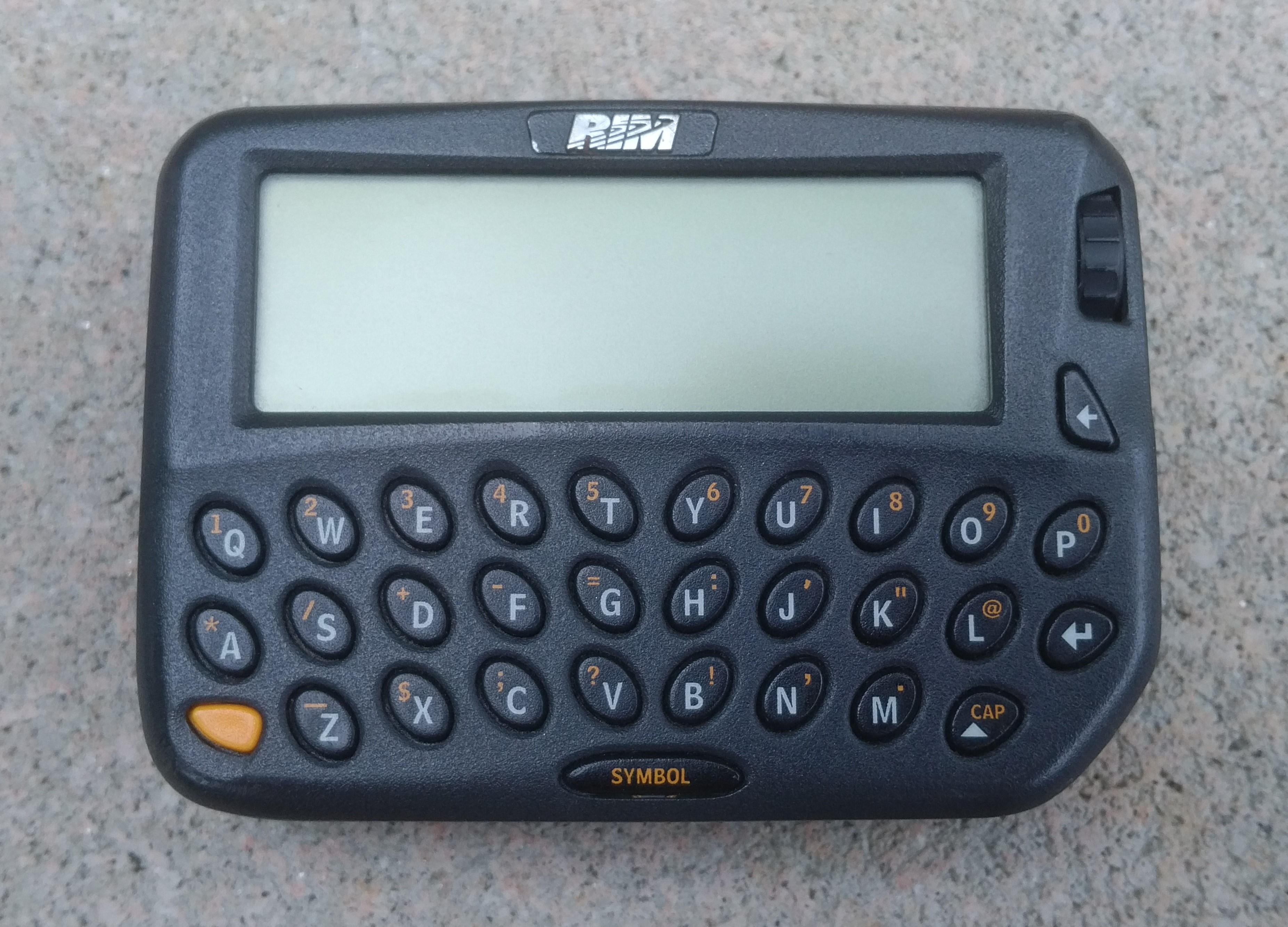 BlackBerry 950 (introduced as "Inter@ctive Pager 950", development name "Leapfrog") is an early BlackBerry model, introduced in 1998 by Research in Motion.